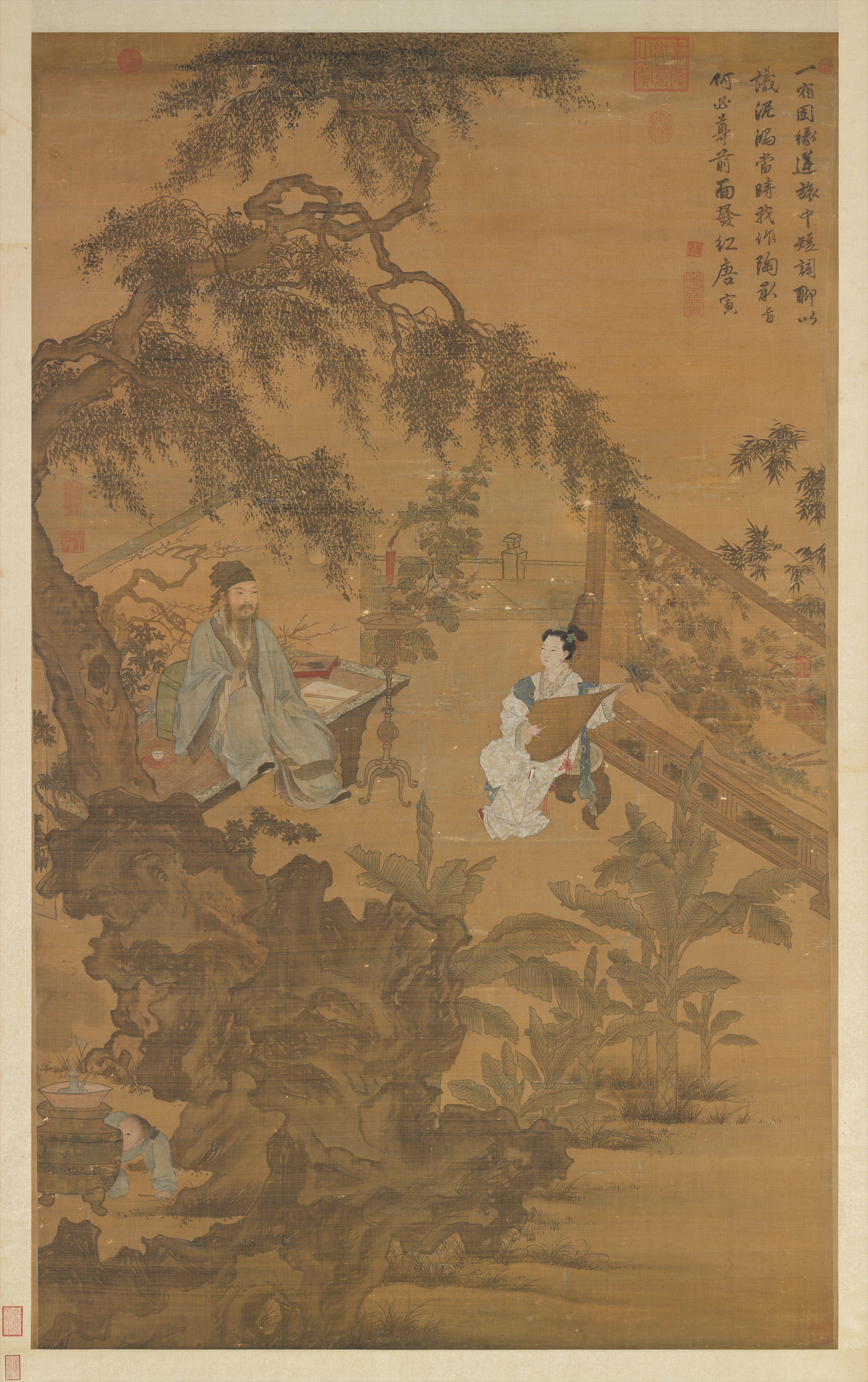 Details of painting, Tao Gu Presents a Poem, ca. 1515, by Tang Yin (1470-1523) Ming Dynasty. National Palace Museum, Taipei.